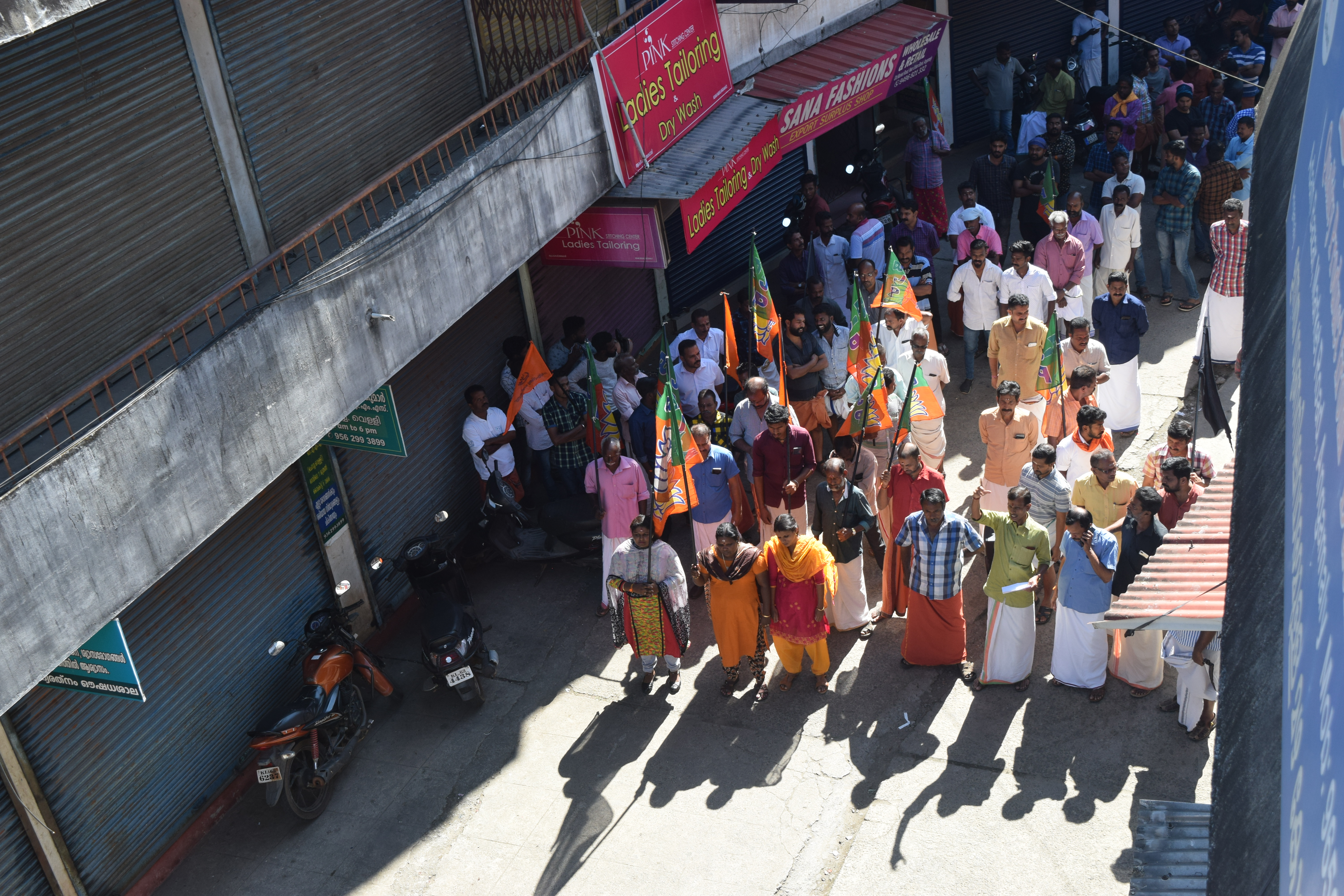 BJP Conducting March on Kerala Harthal (Declared for protesting against young women entry on Sabarimala temple) Day 3rd January 2019